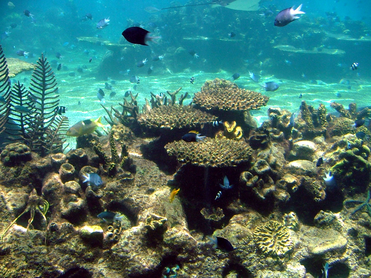 Sea life in an aquarium in Sea World, Queensland, Australia.